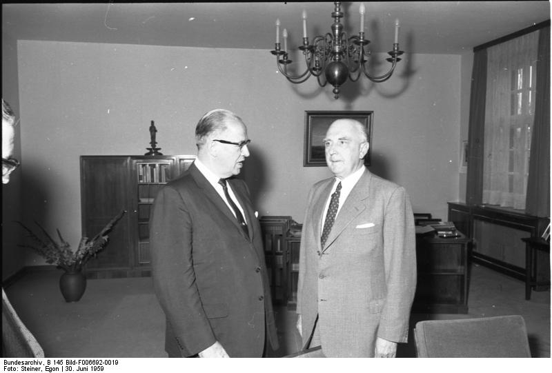 Theodor Sonnemann (at the right) and Ezra Taft Benson (at the left, wearing glasses).